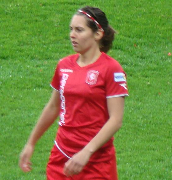 FC Twente player Jolijn Heuvels